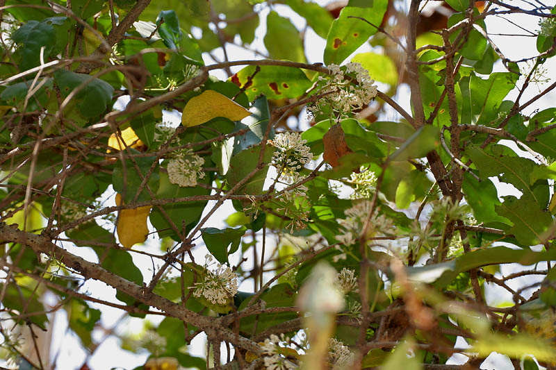 Lokhandi, Gurani, kurati, gorbale or raikura Ixora brachiata in Kinnerasani Wildlife Sanctuary, Andhra Pradesh, India.